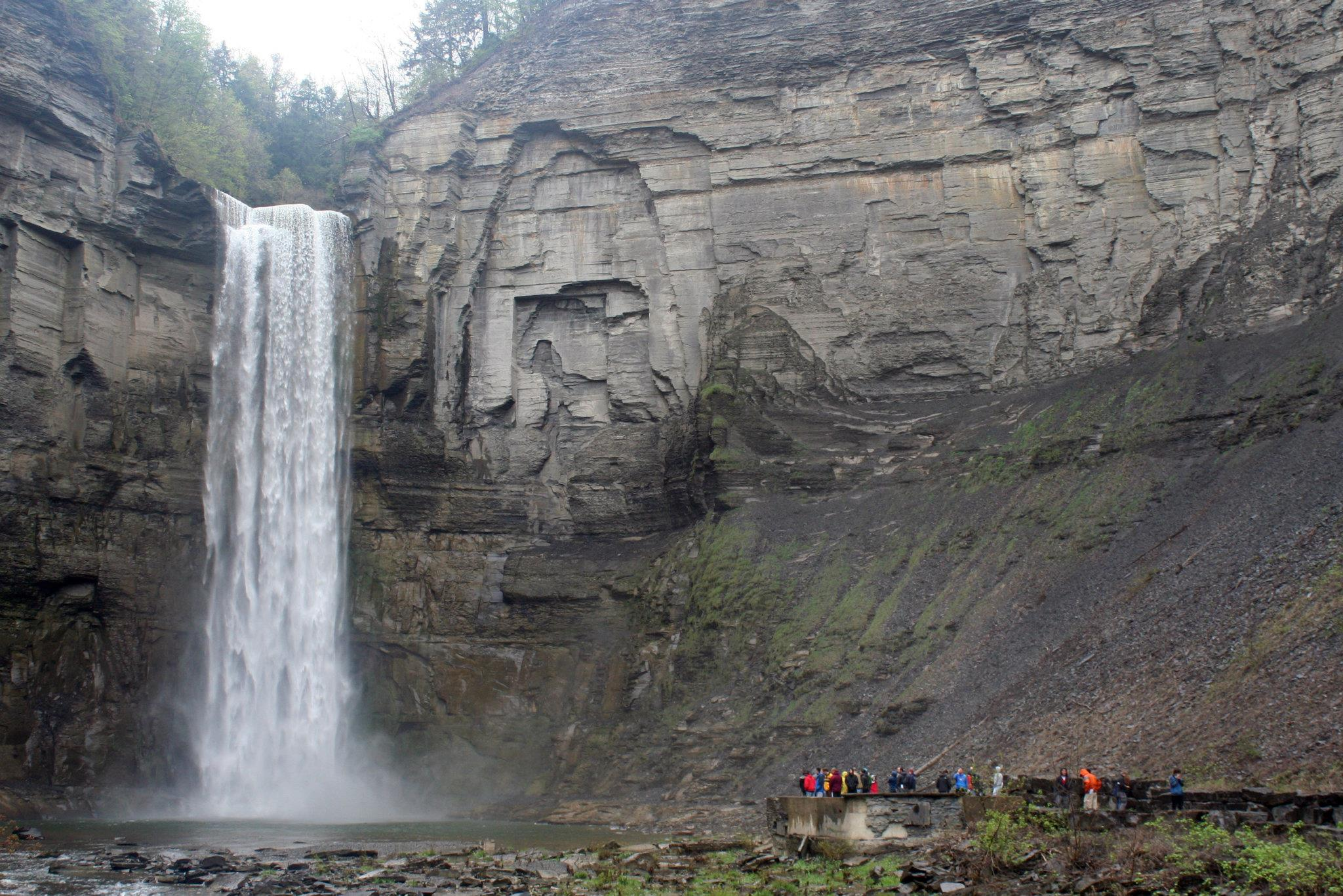 View of Taughannock Falls near Ithaca, NY